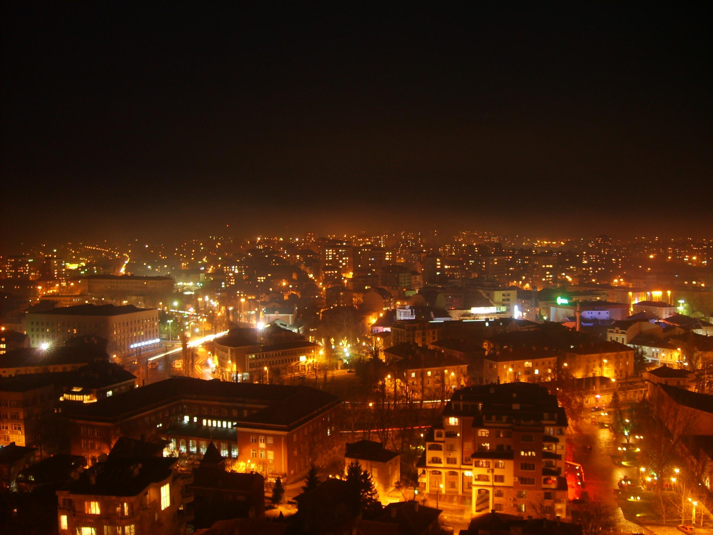 Town of Haskovo at night